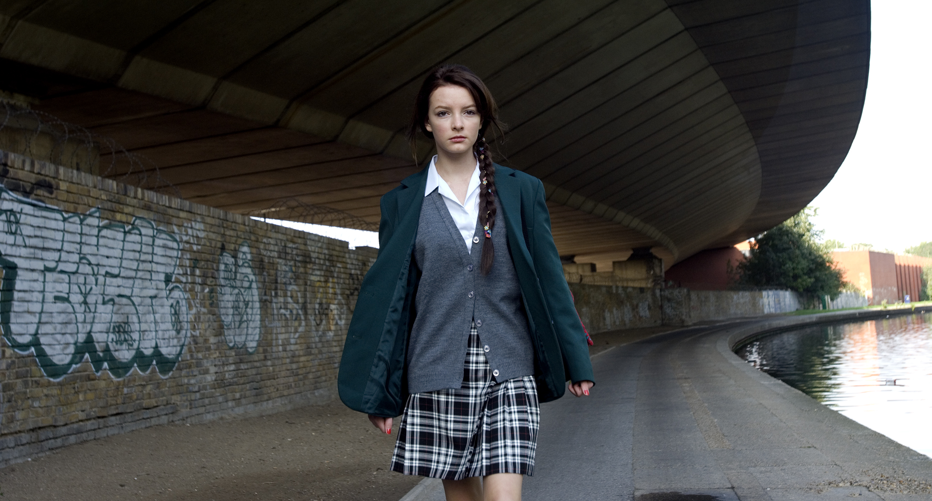 A publicity still from Dustbin Baby showing April (Dakota Blue Richards)